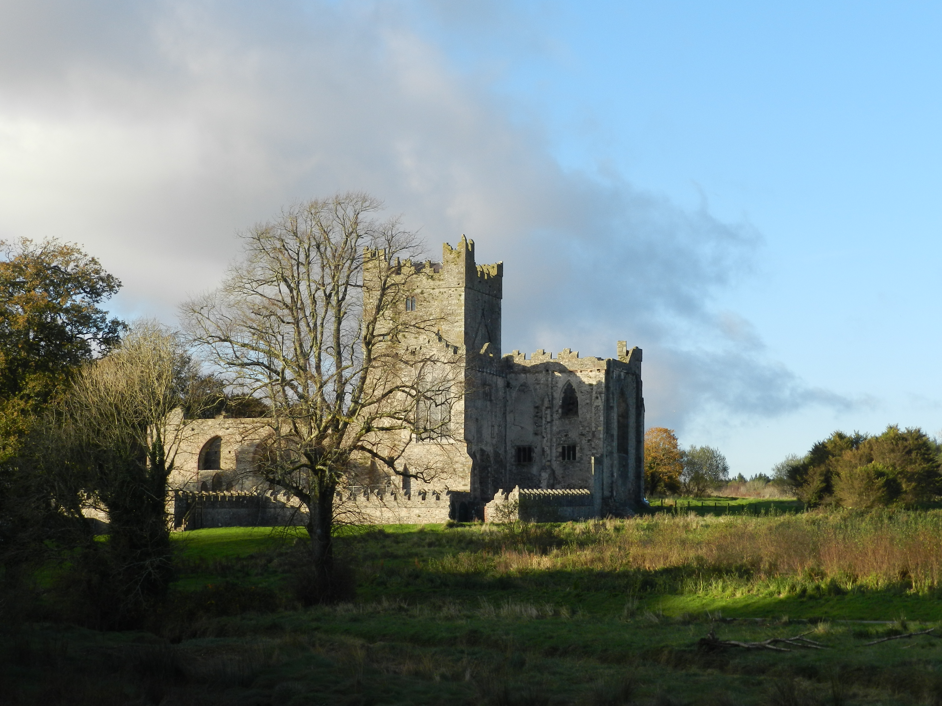 Tintern Abbey, Saltmills, Co Wexford - Cistercian abbey, founded c. 1200AD